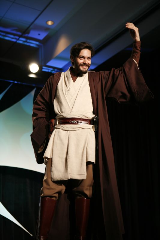 Photo by Scott Ruether. Read more at the Official Celebration IV blog. Costumes at Star Wars Celebration IV in 2007 at the Los Angeles Convention Center in Los Angeles.